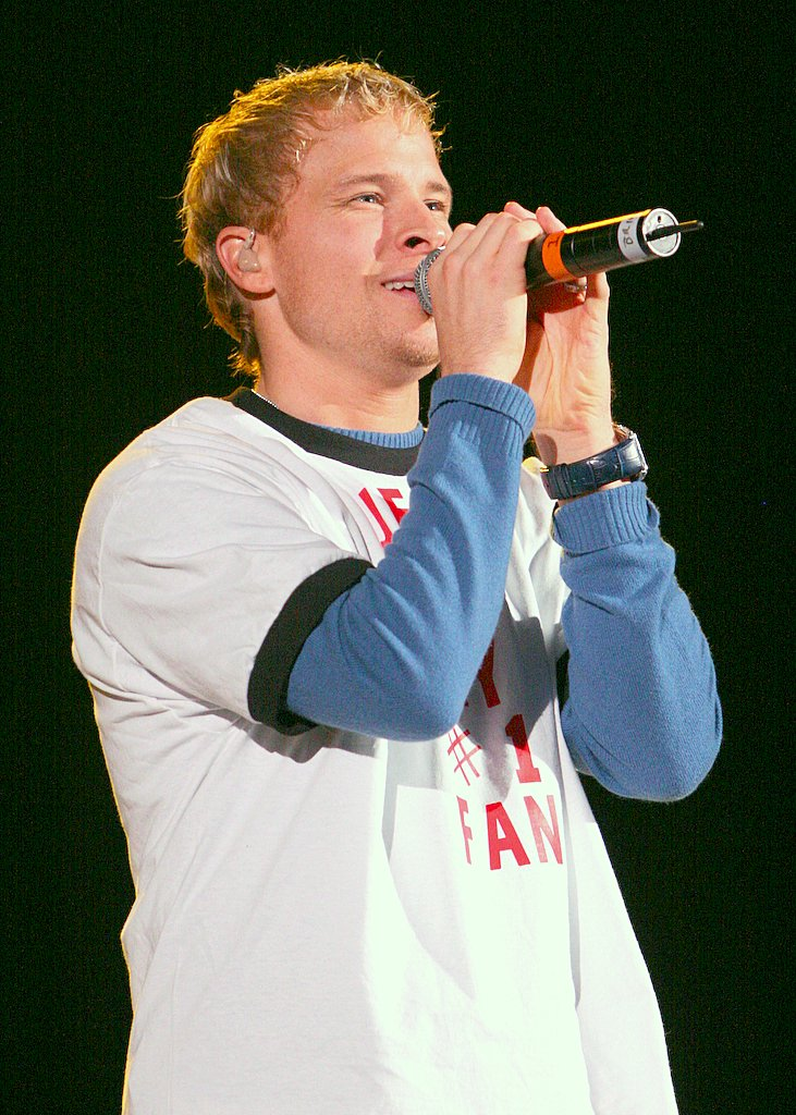 Brian Littrell performing at KISS 106.1 Jingle Bell Bash 8